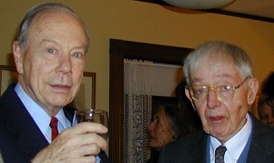 Mathematician Andrew Gleason with his mentor George Whitelaw Mackey, at Alice Mackey's 80th birthday (2000).